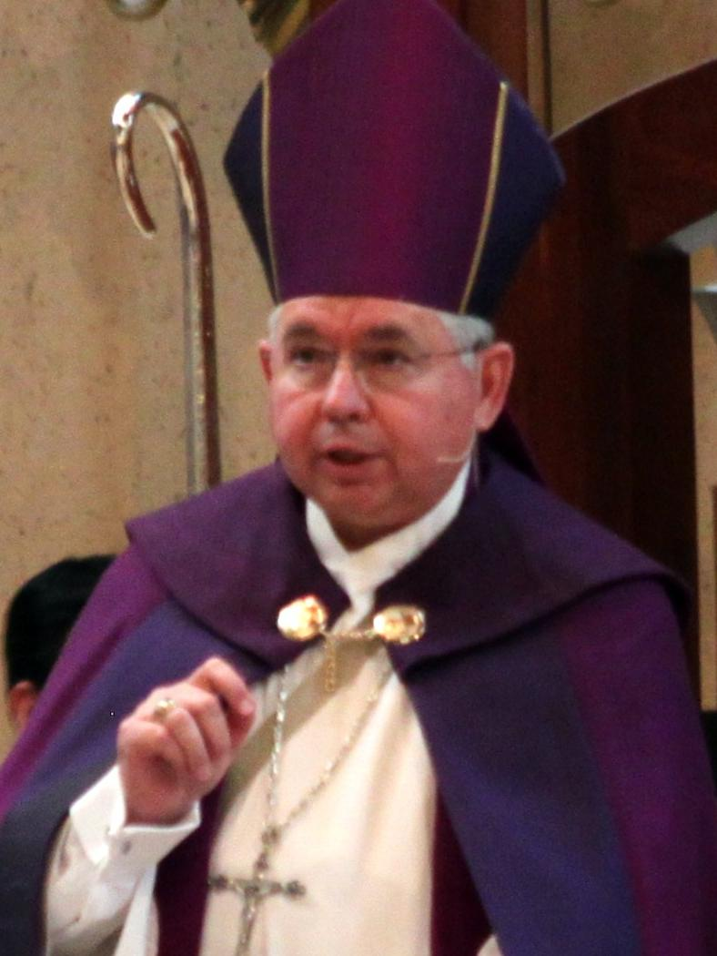 José Horacio Gómez, Archbishop of Los Angeles, California, United States of America.